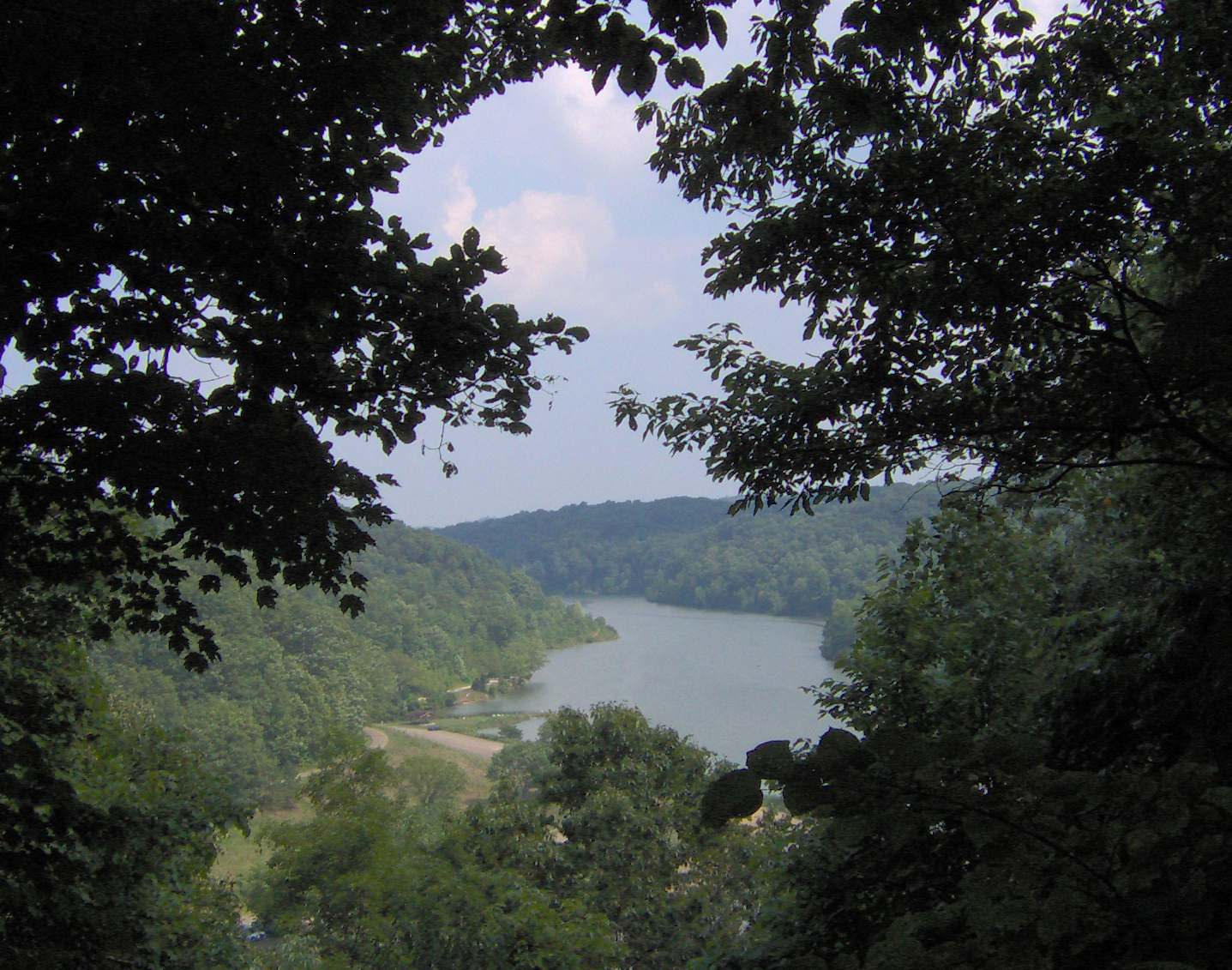 Vista Point overlook at Strouds Run State Park, Athens County, Ohio